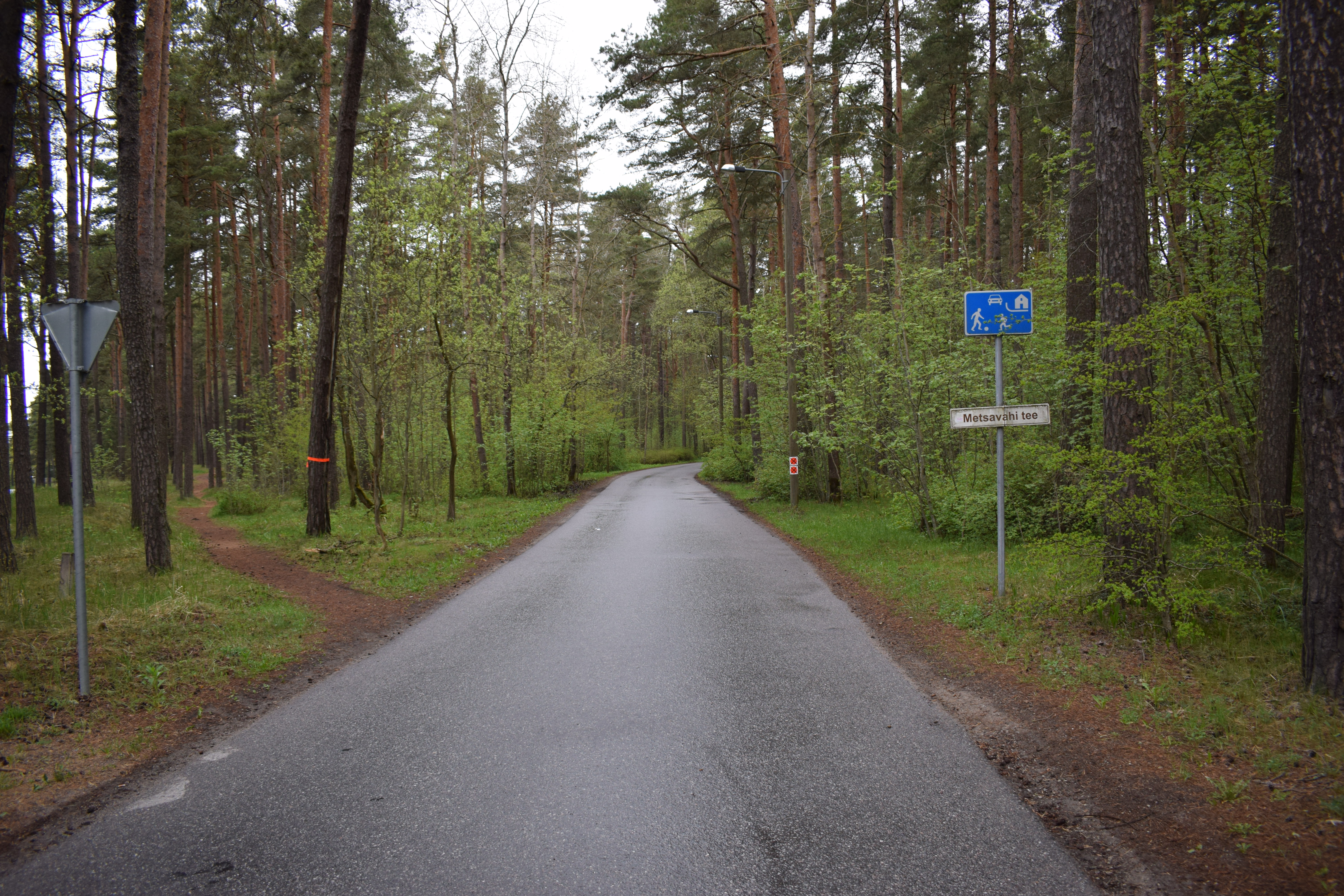 Metsavahi tee